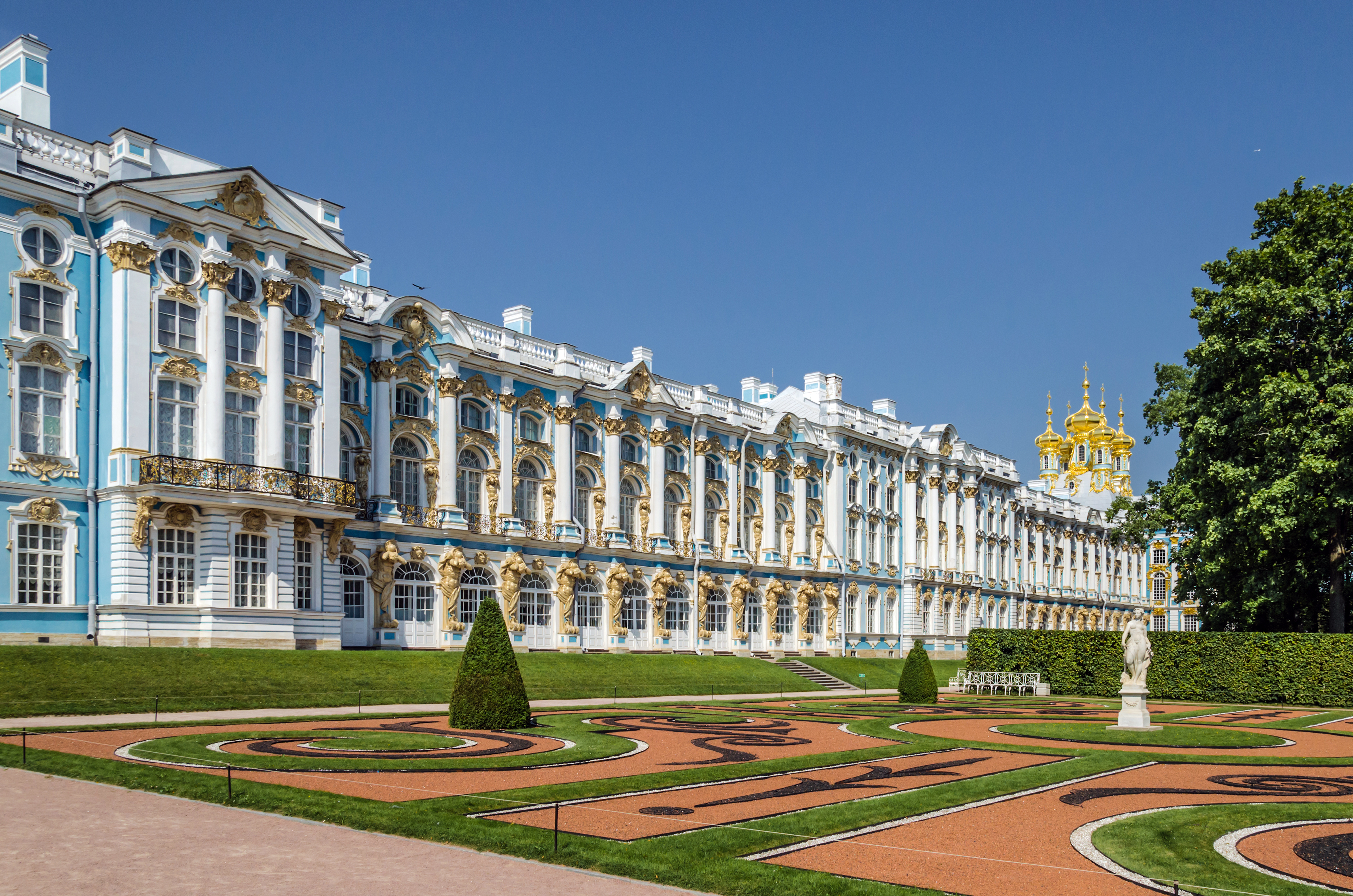 Catherine Palace in Tsarskoe Selo, Saint Petersburg